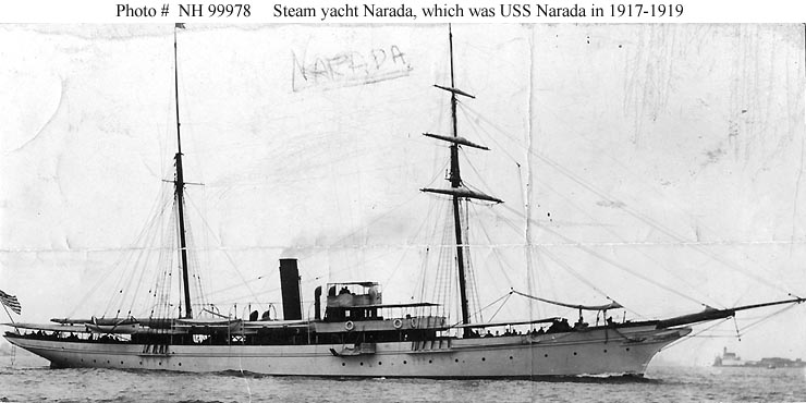 Civilian yacht Narada prior to her United States Navy service as patrol vessel USS Narada (SP-161)